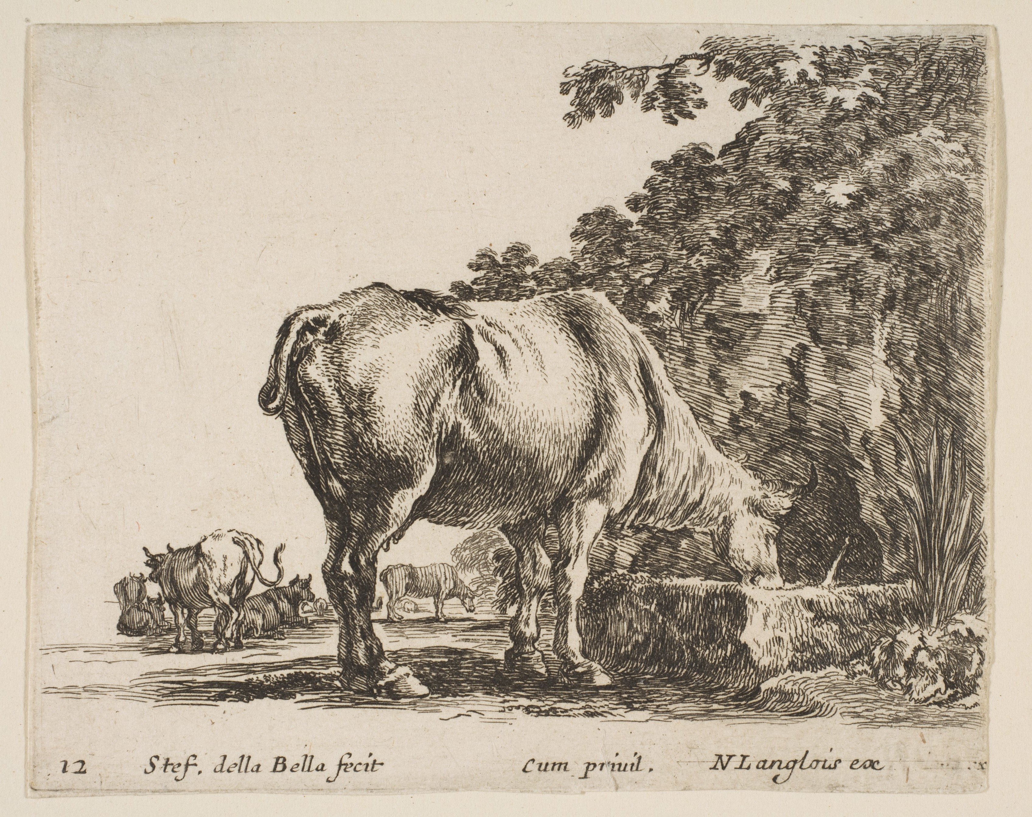 Print; Prints